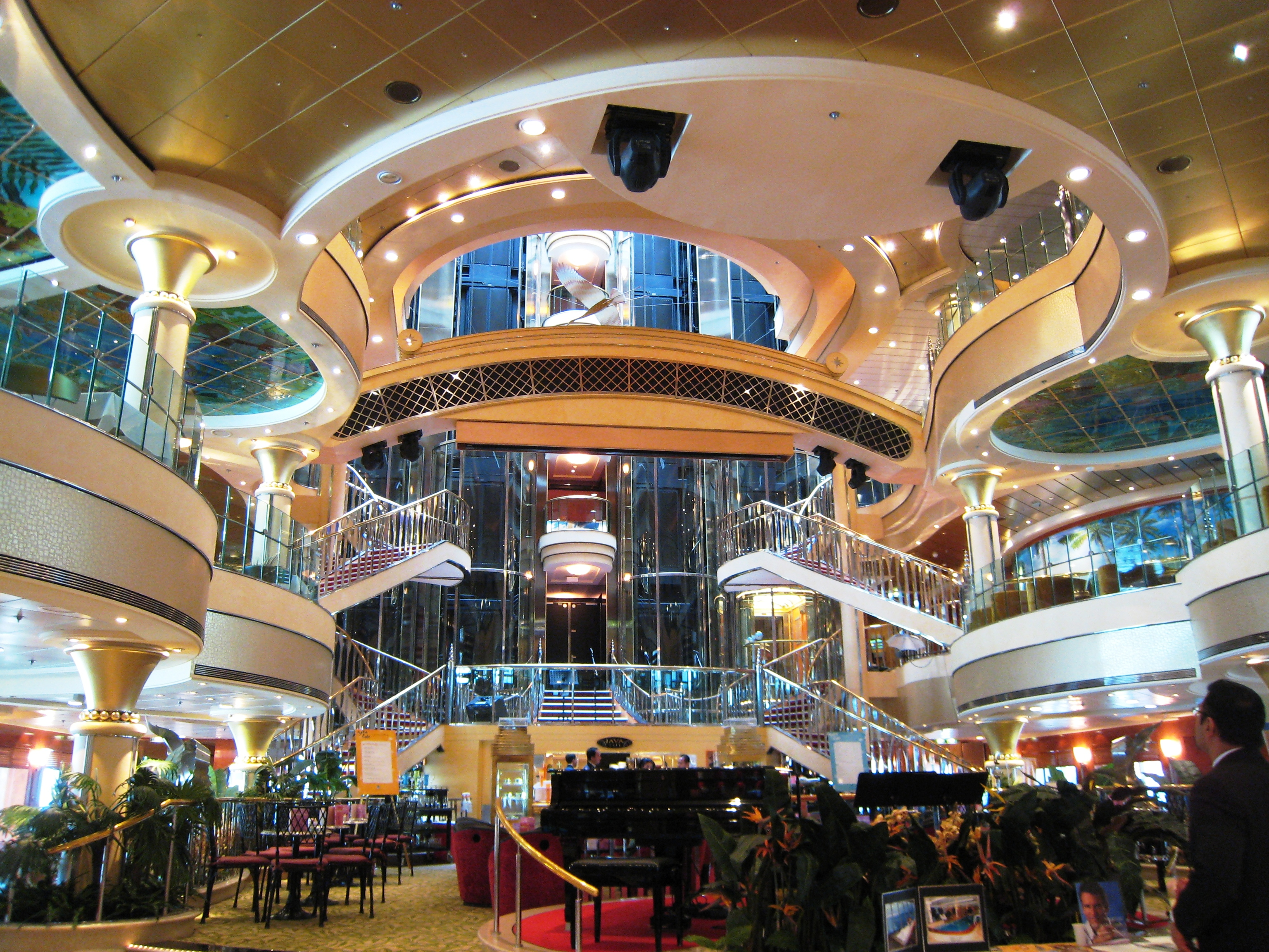 The atrium onboard the Norwegian Star.